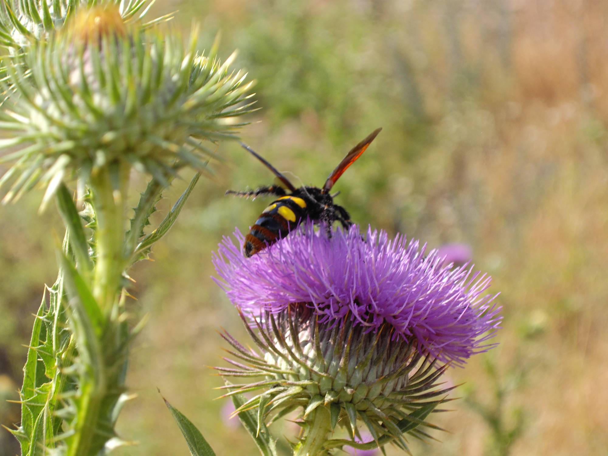 Scolia maculata on Onopordum acanthium